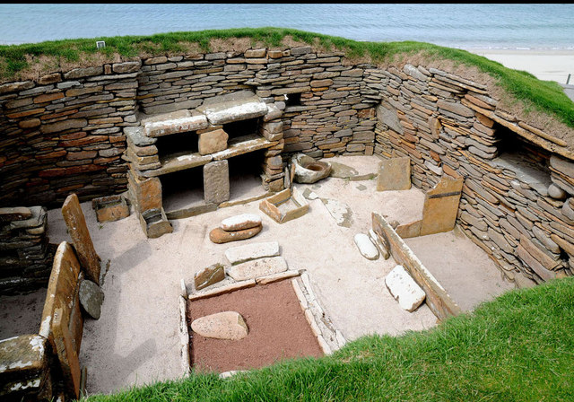 Skara Brae To know more go to